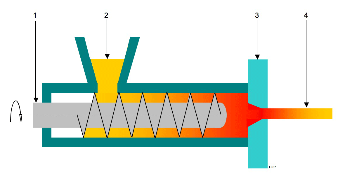 Extrusion. Visualization of the continuous extrusion process. March 2007. Laurens van Lieshout.